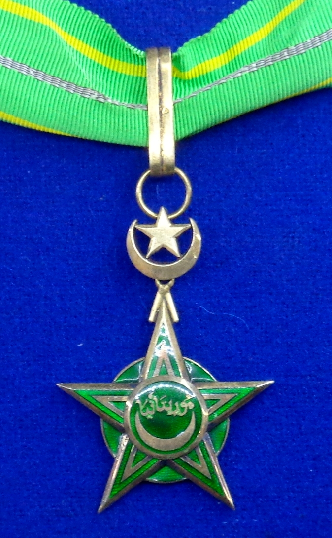 National Order of Merit, badge of Grand Officer. Mauritania. The exhibition of the Tallinn Museum of Orders of Knighthood, Estonia.